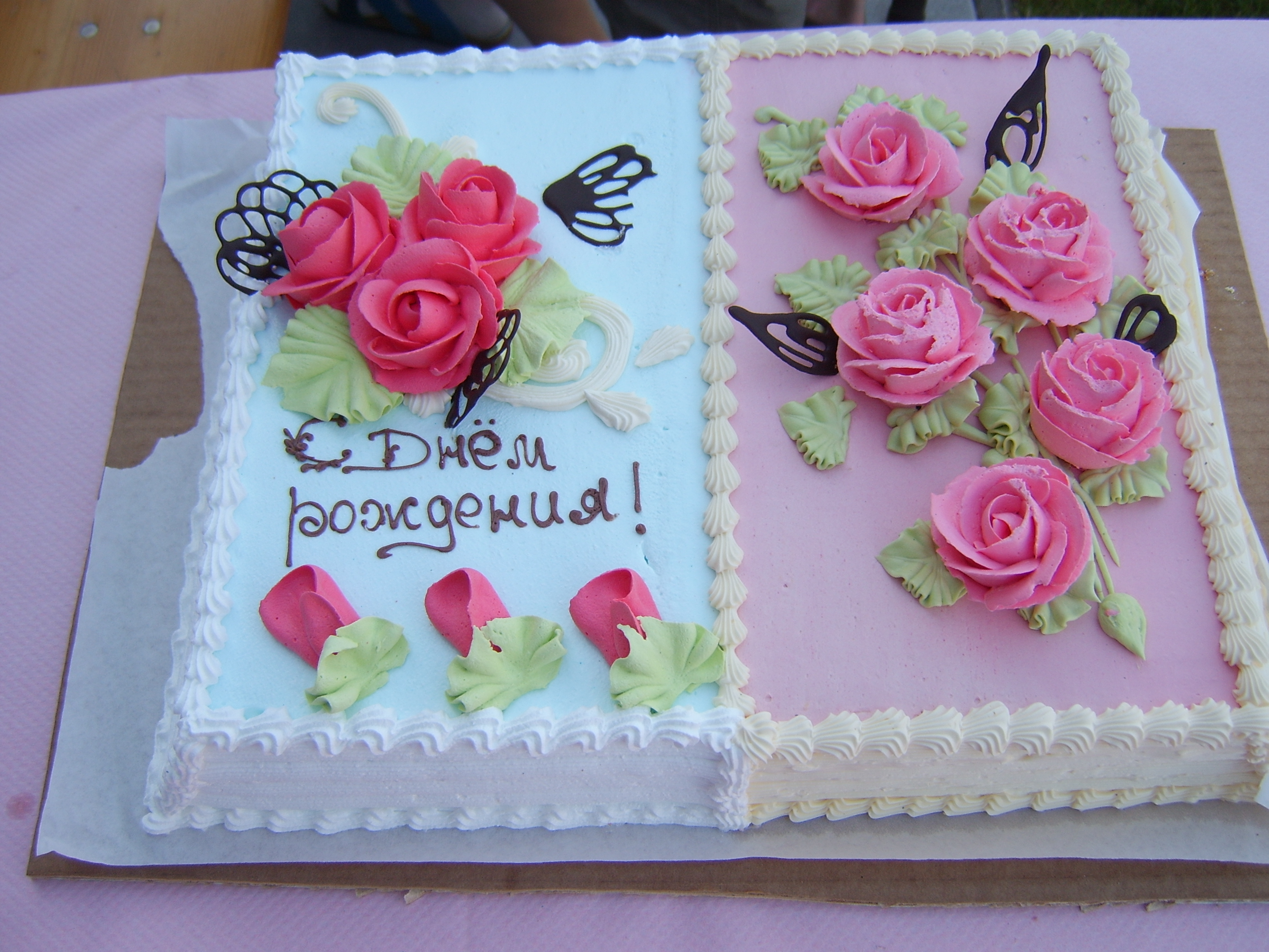 Geburtstagstorte; Hayppy Birthday Cake; С днём рождения !